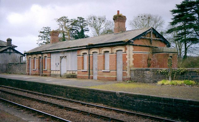 Dunleer Station Deserted station and platform, at Dunleer on the Dublin Belfast Mainline